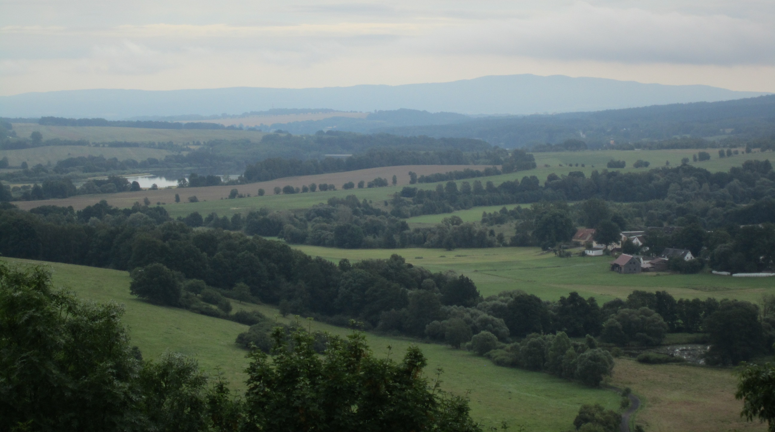 View across the Eger valley from Hohenberg Castle